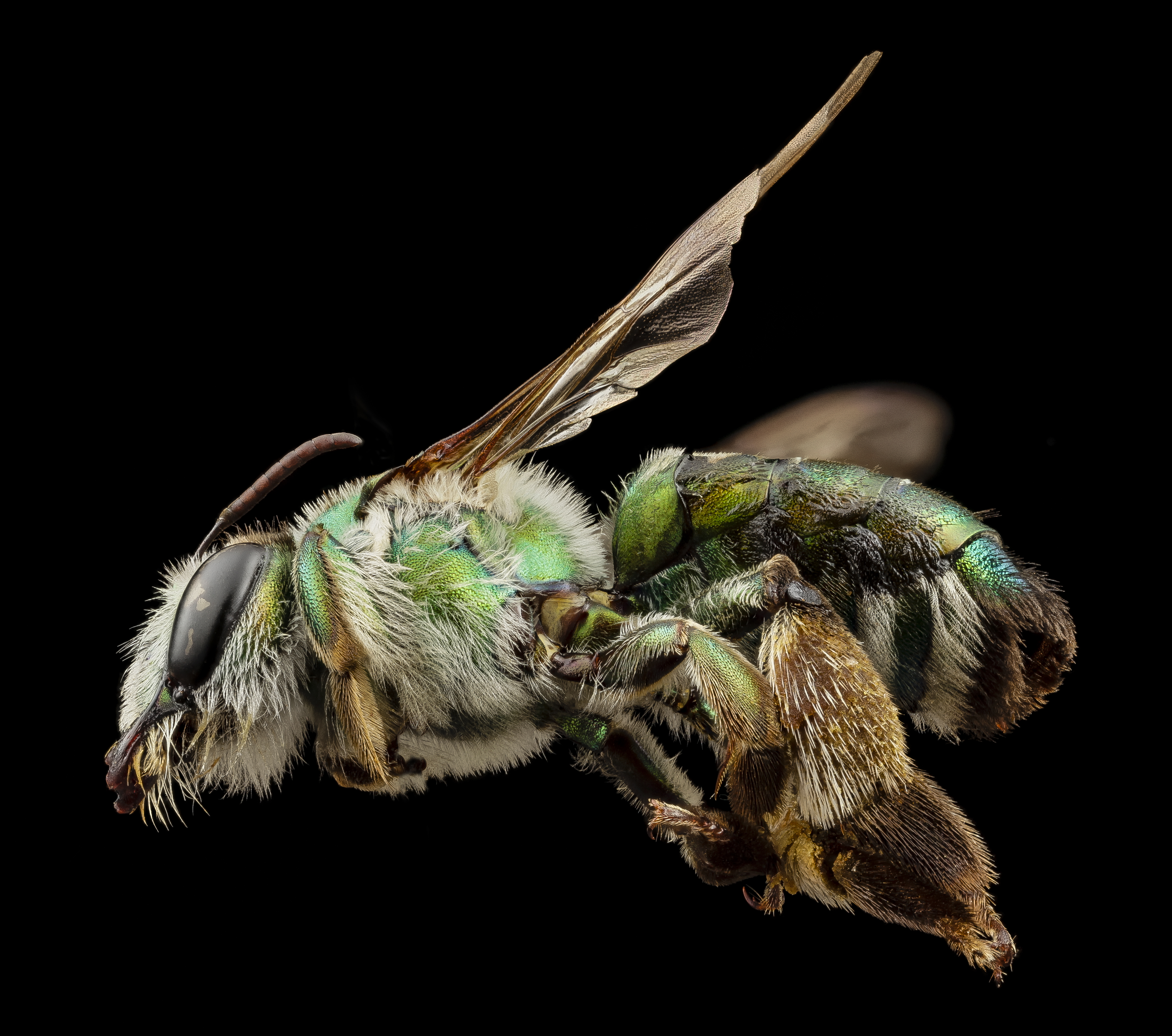 Appropriately coming from the latin noun for emerald, comes this large lovely from western Australia. From the Packer Lab 17:07, 17 November 2014 (UTC)17:07, 17 November 2014 (UTC) 0 17:07, 17 November 2014 (UTC)17:07, 17 November 2014 (UTC) All photographs are public domain, feel free to download and use as you wish. Photography Information: Canon Mark II 5D, Zerene Stacker, Stackshot Sled, 65mm Canon MP-E 1-5X macro lens, Twin Macro Flash in Styrofoam Cooler, F5.0, ISO 100, Shutter Speed 200 The murmuring of bees has ceased; But murmuring of some Posterior, prophetic, Has simultaneous come,-- The lower metres of the year, When nature's laugh is done,-- The Revelations of the book Whose Genesis is June. -Emily Dickinson Want some Useful Links to the Techniques We Use? Well now here you go Citizen: Basic USGSBIML set up: USGSBIML Photoshopping Technique: Note that we now have added using the burn tool at 50% opacity set to shadows to clean up the halos that bleed into the black background from "hot" color sections of the picture. PDF of Basic USGSBIML Photography Set Up: ftp://ftpext.usgs.gov/pub/er/md/laurel/Droege/How%20to%20Take%20MacroPhotographs%20of%20Insects%20BIML%20Lab2.pdf Google Hangout Demonstration of Techniques: or Excellent Technical Form on Stacking: Contact information: Sam Droege 301 497 5840